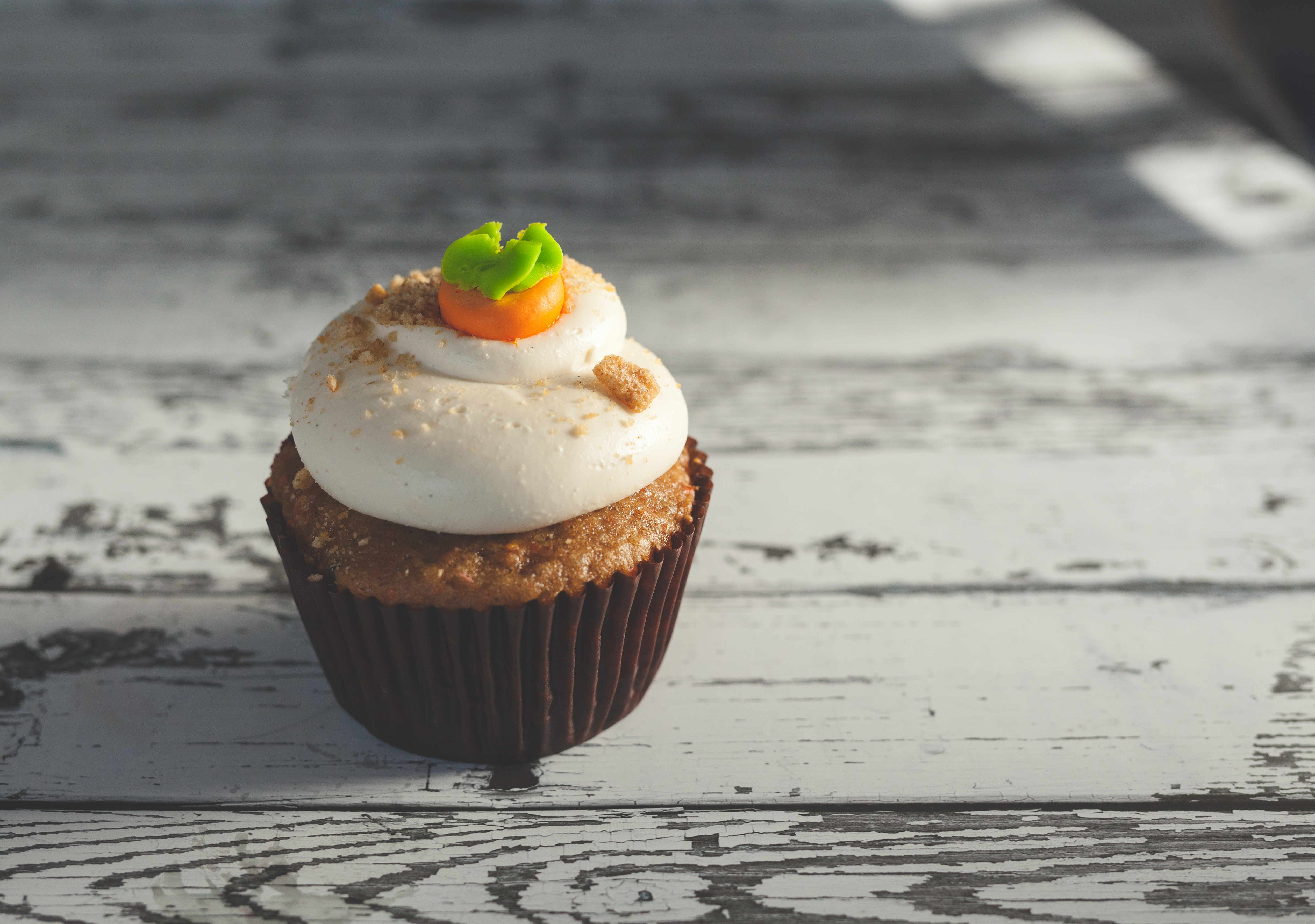 Joseph Gonzalez 2017